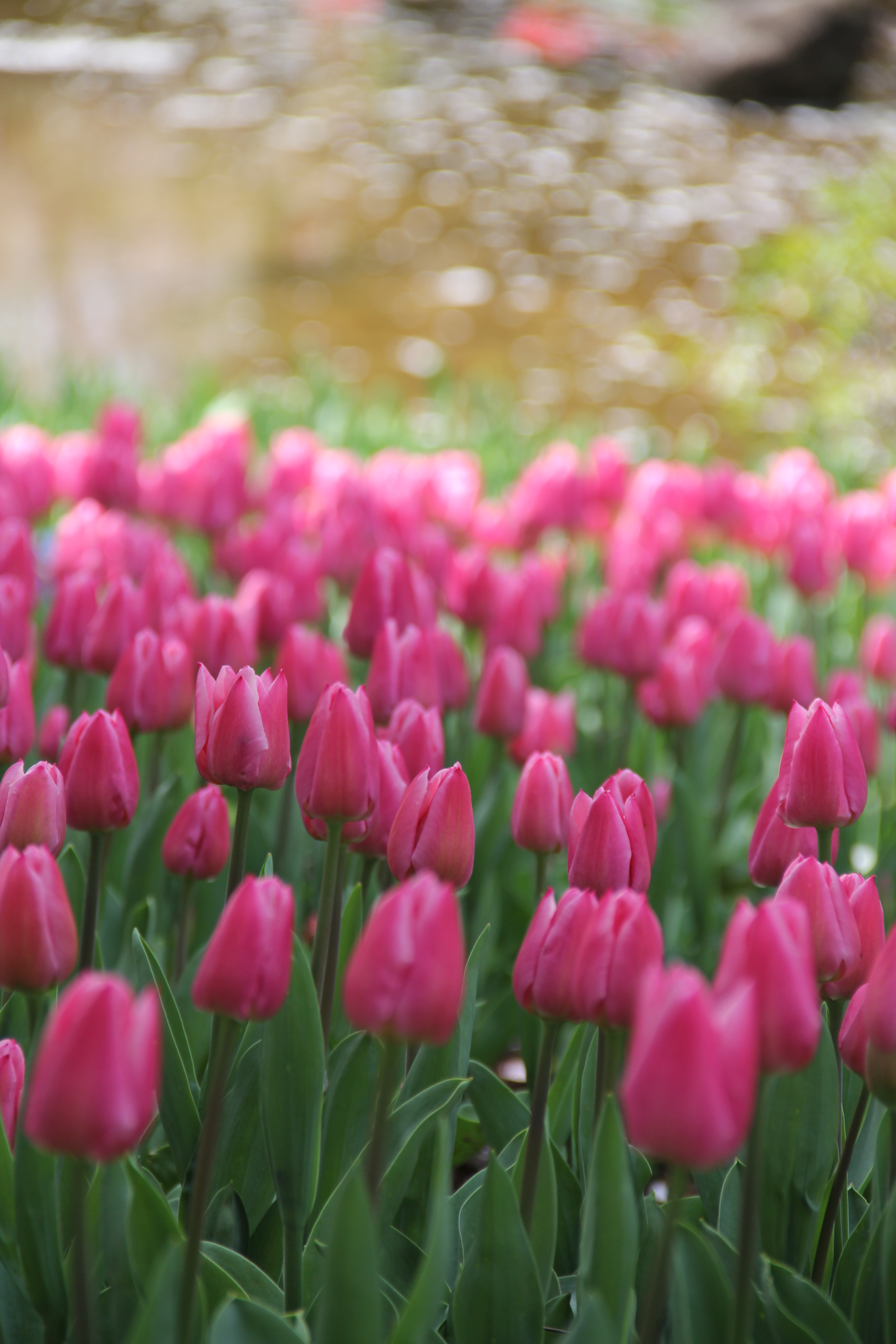 Tulipa Christmas Dream